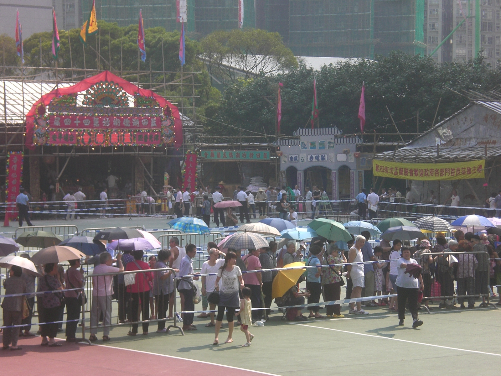 藍田 盂蘭節 藍田配水庫大球場 排隊人龍長者等派米